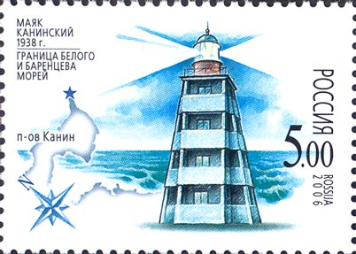 Stamp of Russia. The lighthouses of the Barentsevo sea and of the White sea